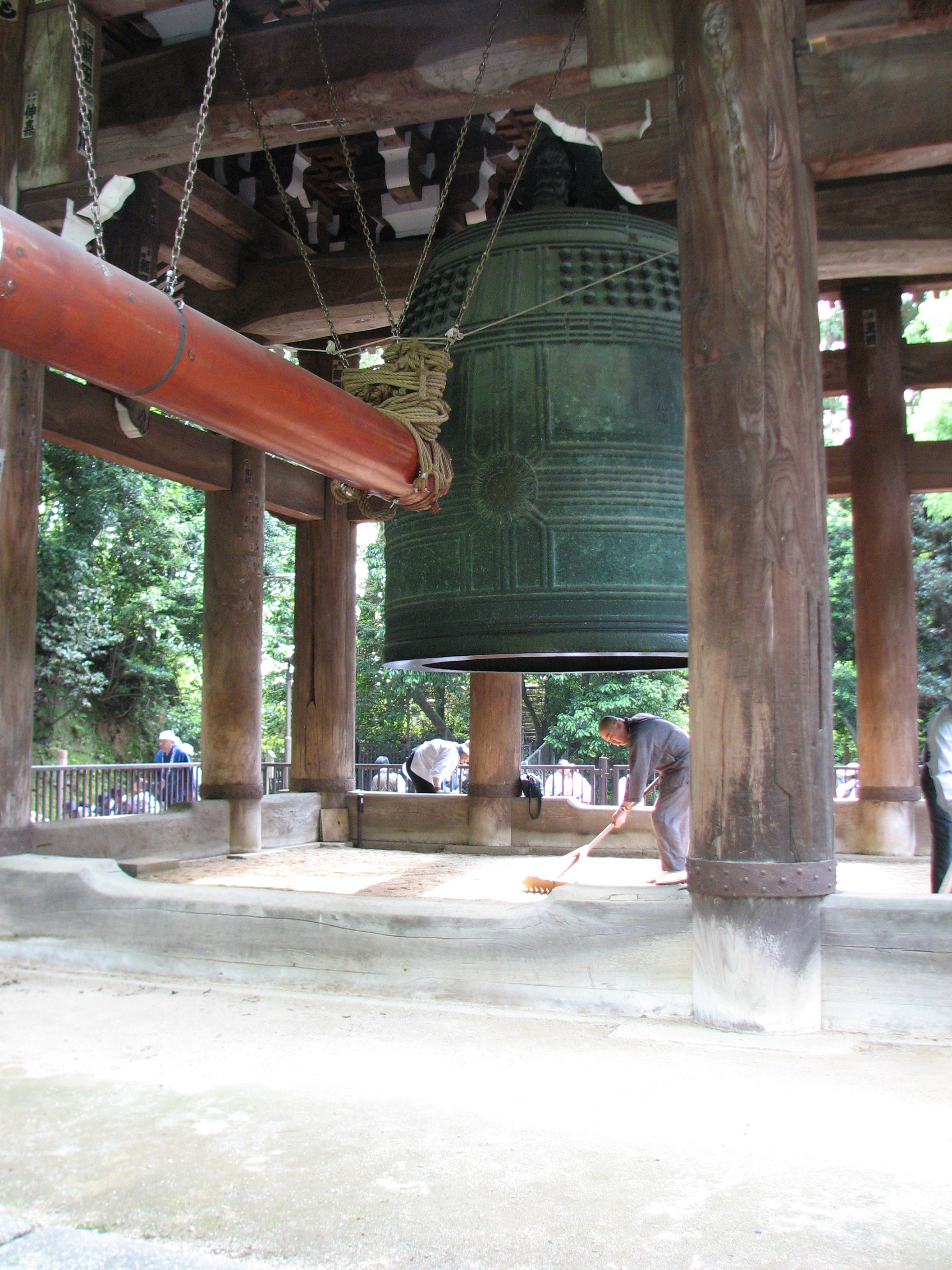 The Great Bell at Chion-in. Oh, how I wish I could hear it ring....